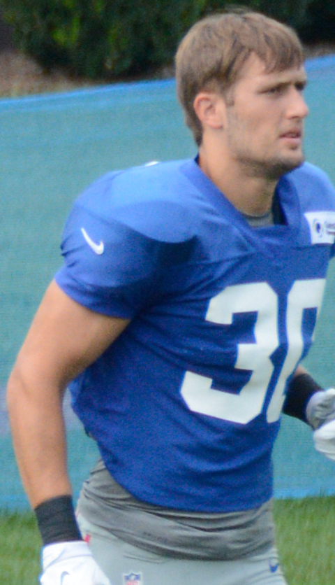 New York Giants training camp